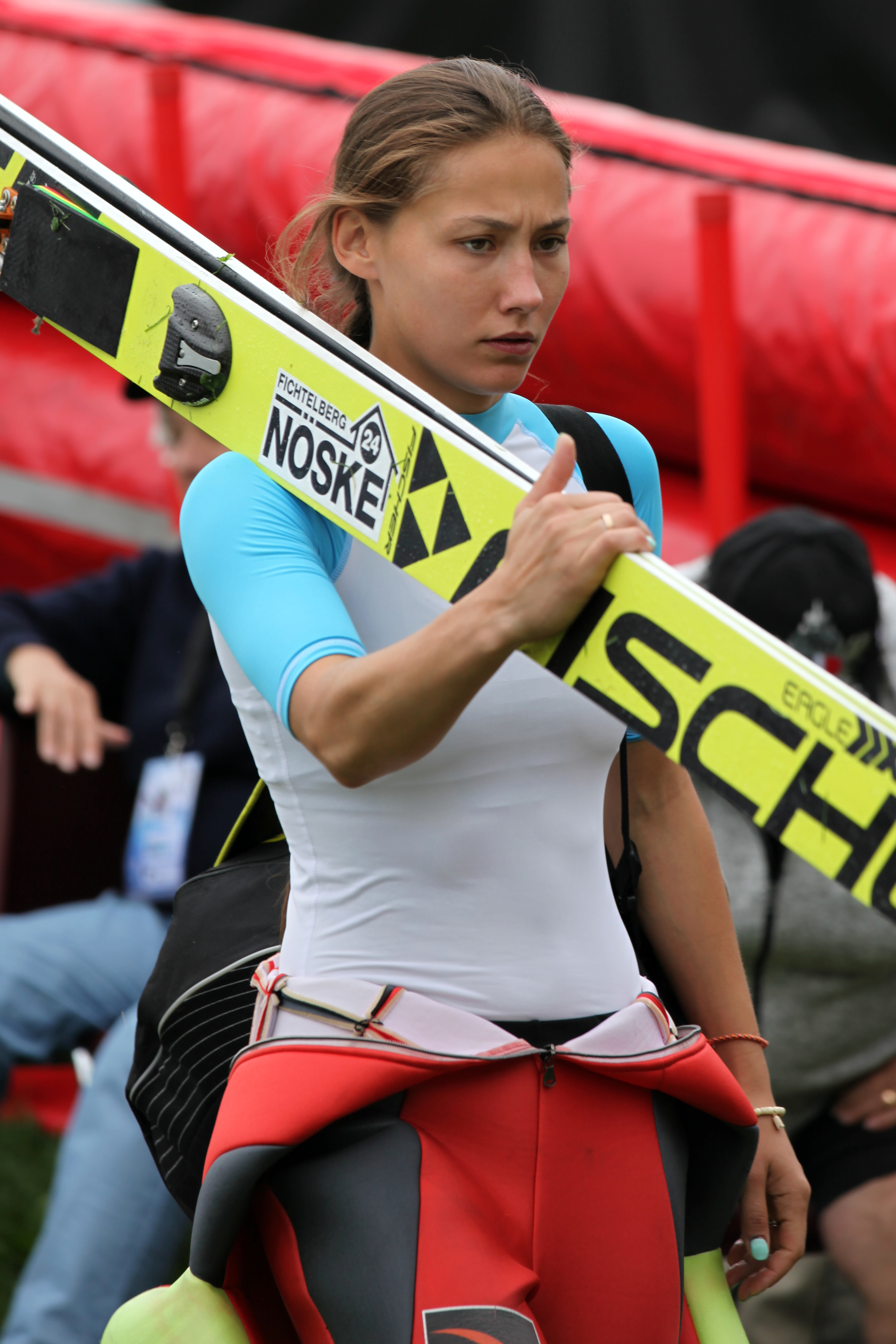 Irina Avvakumova Taktaeva (Ирина Андреевна Аввакумова Тактаева) at the Summer Grand Prix ski jumping event in Courchevel